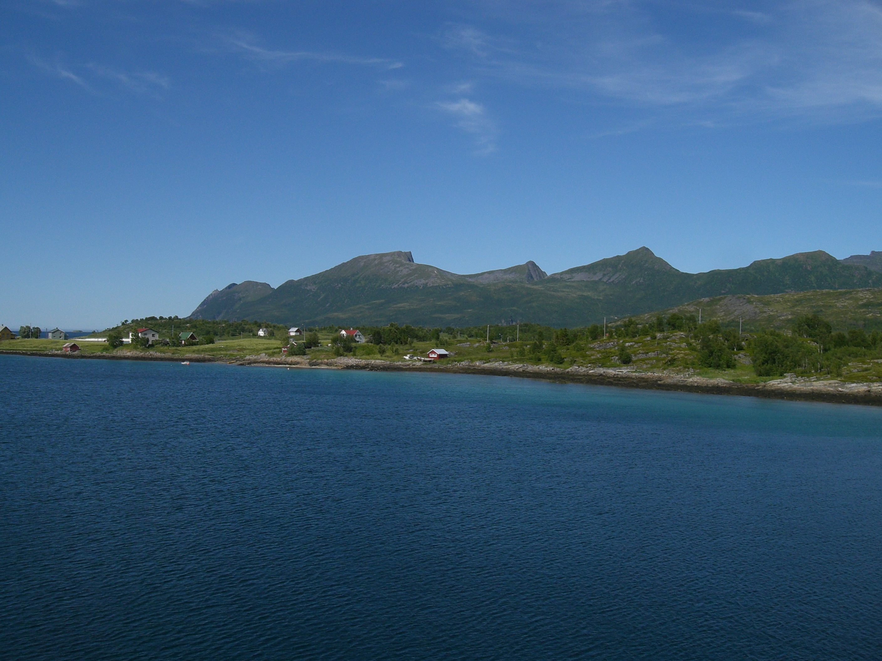 Lavollsfjorden on the Senja island in Norway